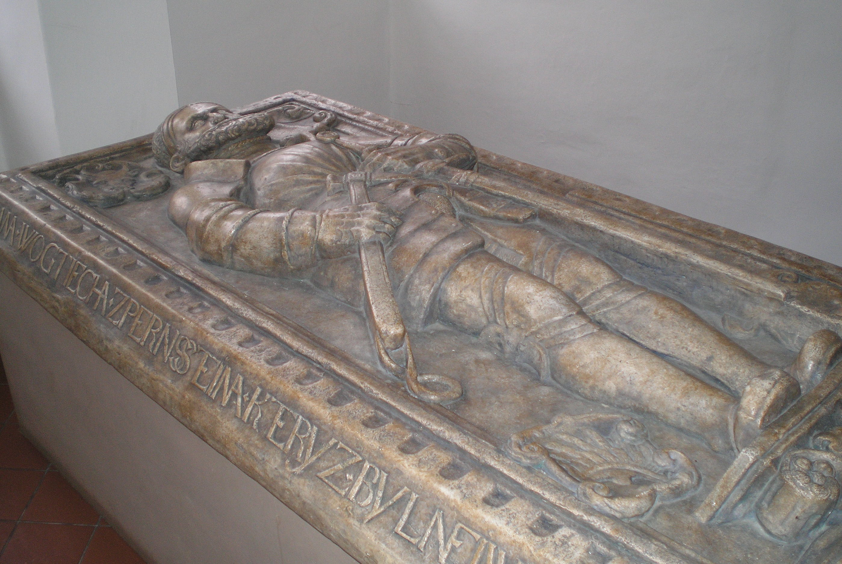 Pardubice, tombstone of Vojtěch from Pernštejn